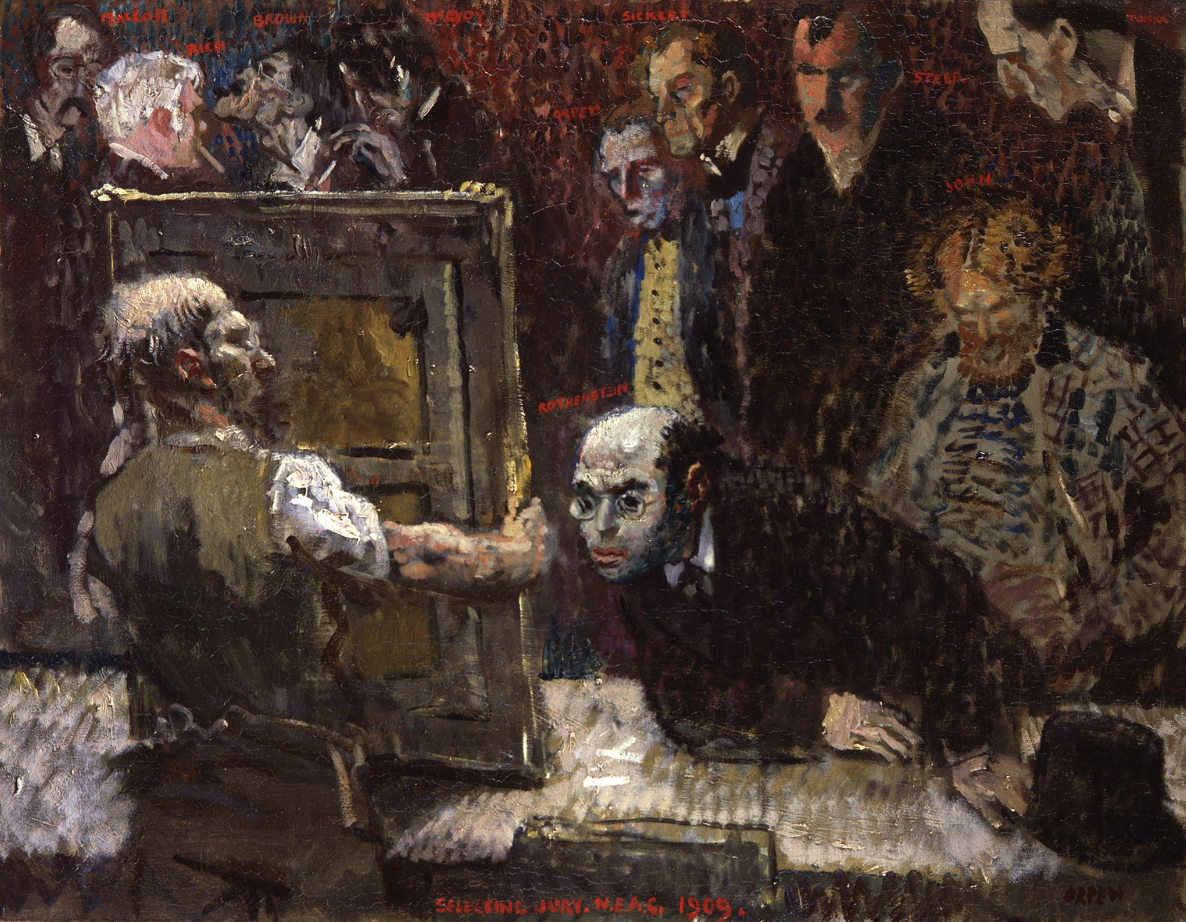 The Selecting Jury of the New English Art Club, 1909, by Sir William Orpen (died 1931). All images in this batch have been confirmed as author died before 1939 according to the official death date listed by the NPG.